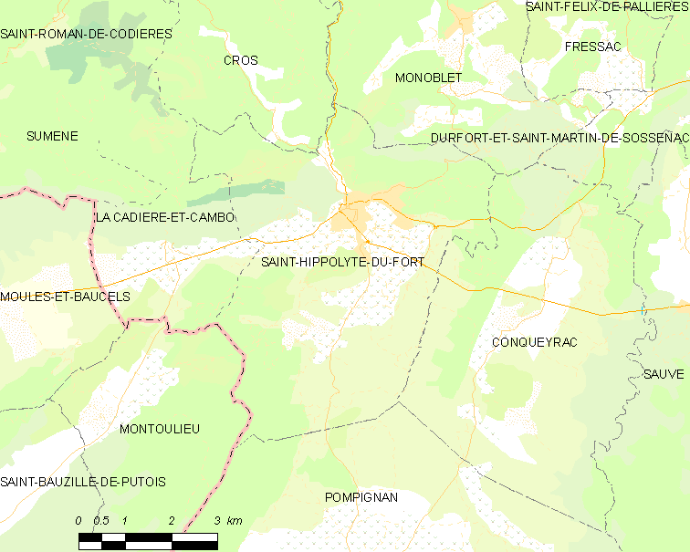 Map commune FR insee code 30263.png - Saint-Hippolyte-du-Fort